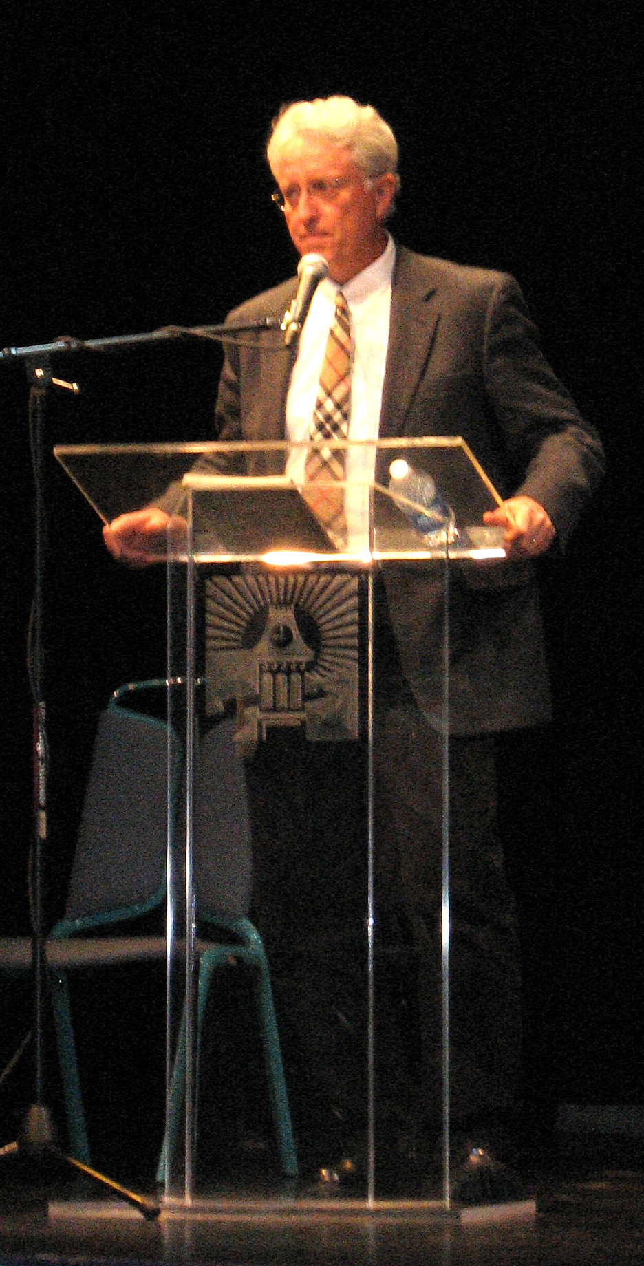 Jack Thompson (attorney) speaking at a debate at California University of Pennsylvania